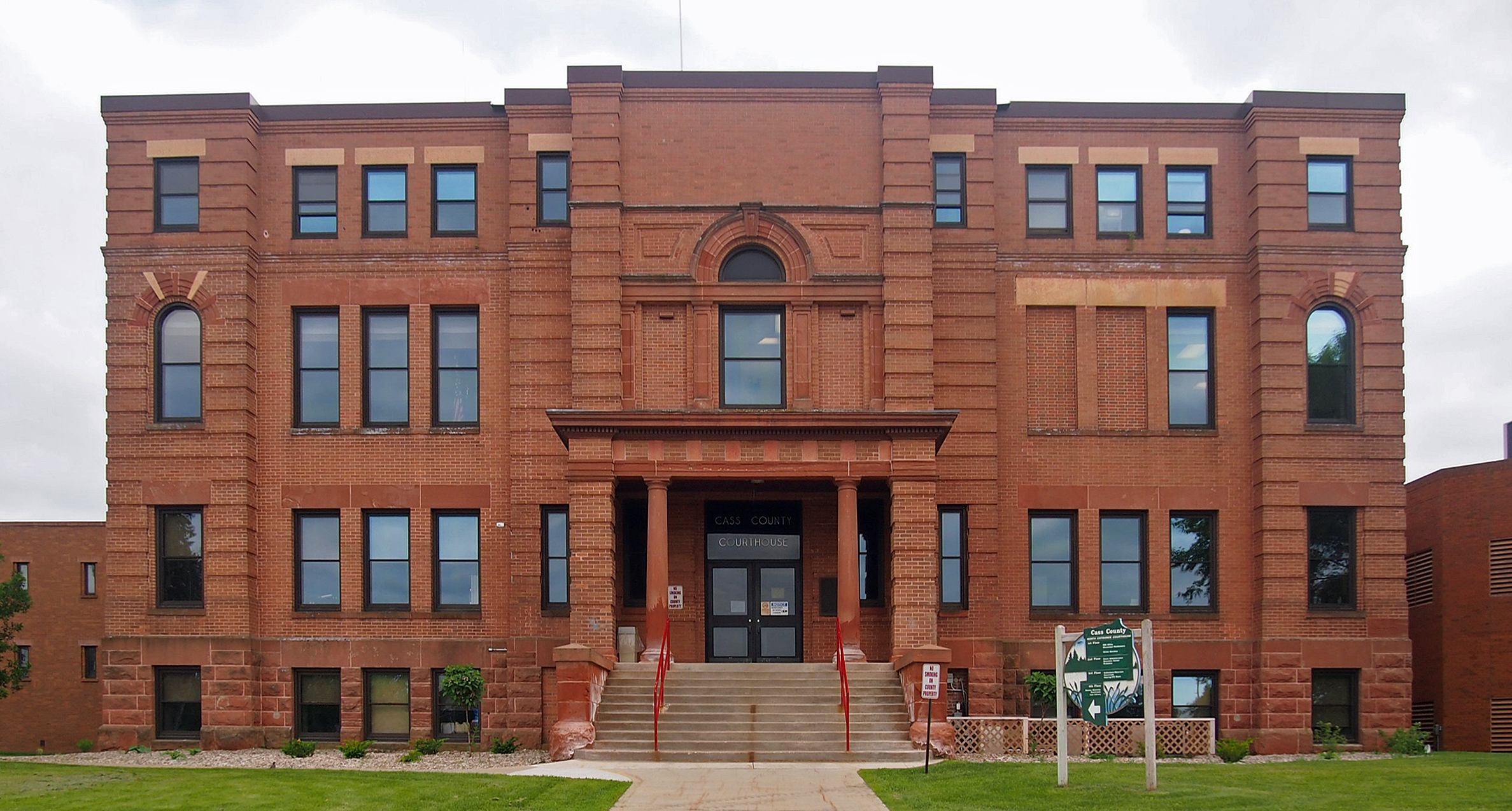 Cass County Courthouse, 300 Minnesota Ave, Walker, Minnesota, USA. Viewed from the north.